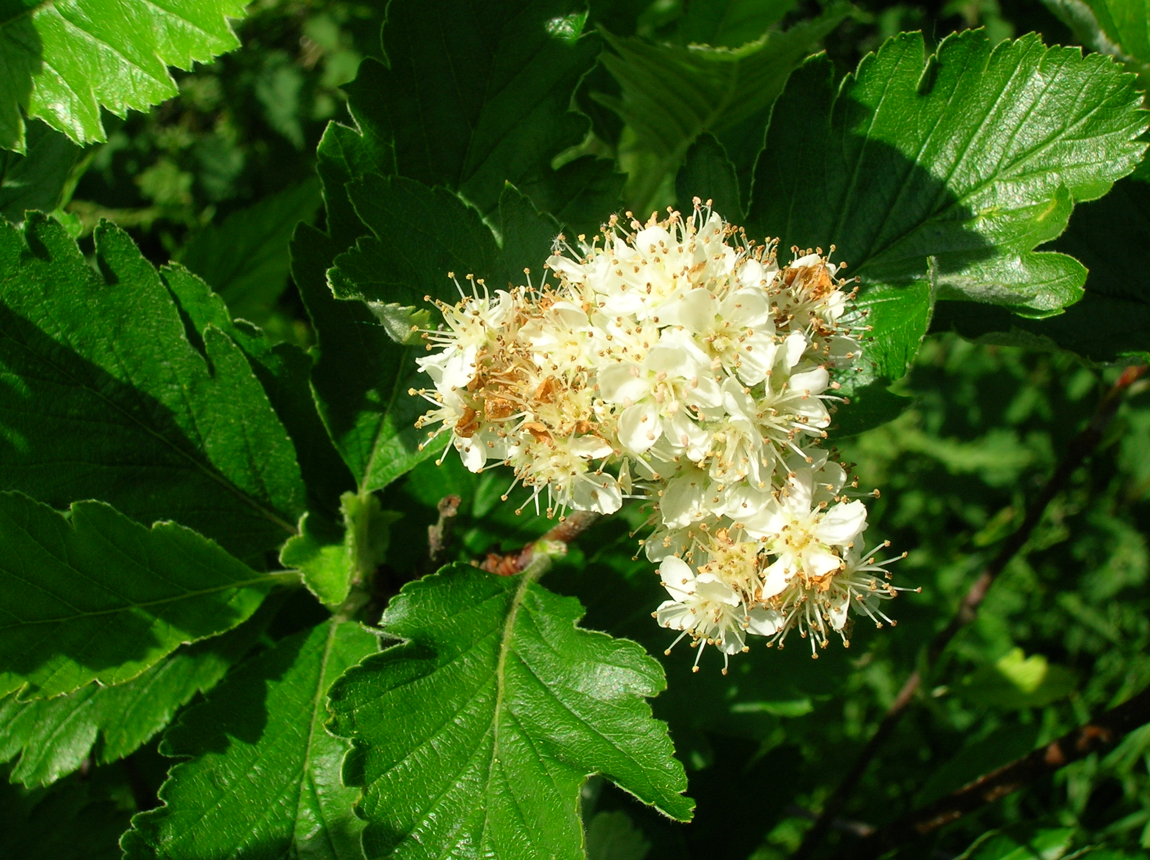 Sorbus arranensis in flower, Eglinton Country Park, Ayrshire, Scotland.